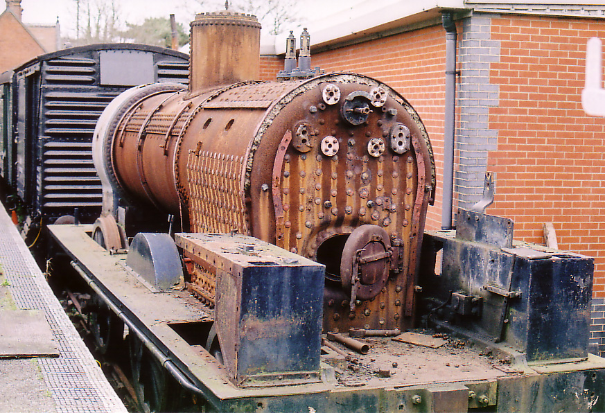 The other end of the rusty old steam engine taken on film that I was using up.